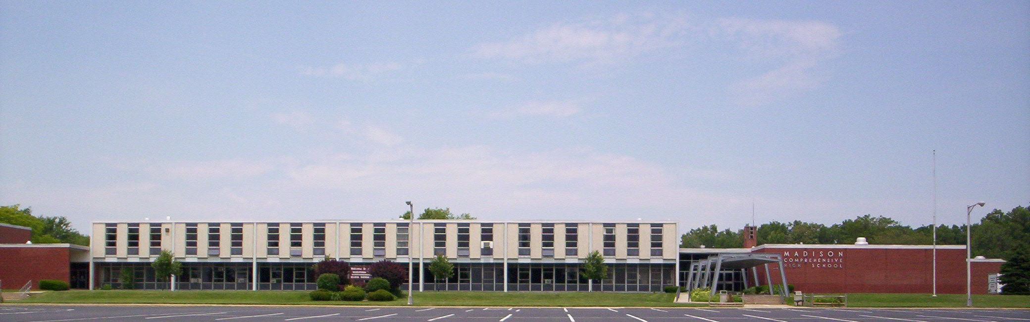 A view of Madison Comprehensive High School in Madison Township near Mansfield, Ohio.